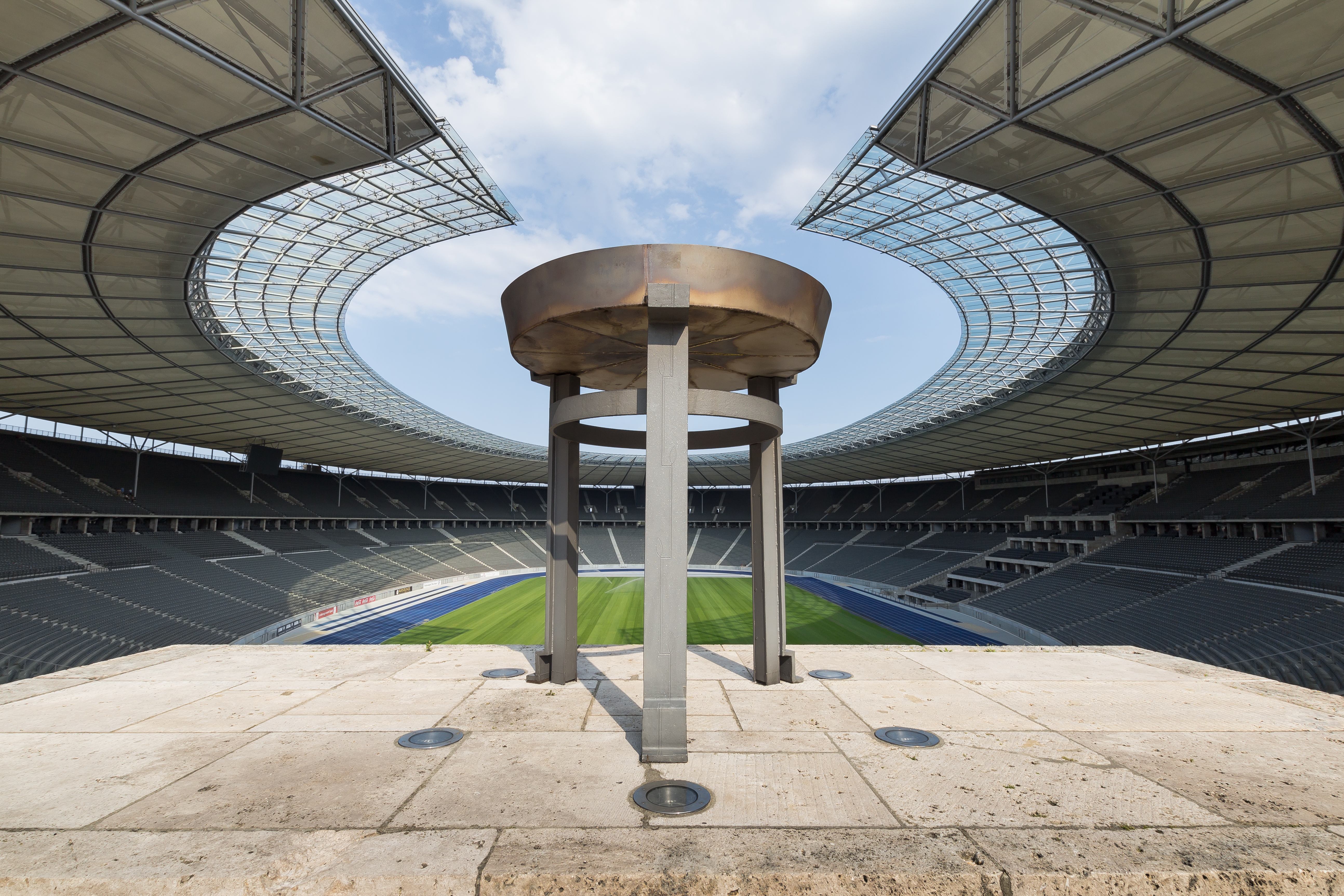 View from the Marathon Gate into the Olympiastadion in Berlin